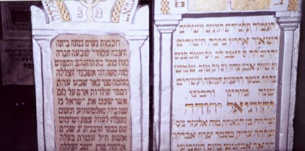 "Yitav Lev" tombstone in Sighet